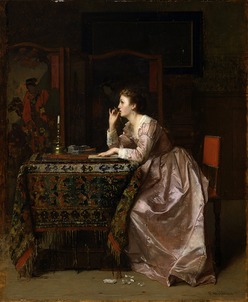 A lady in early 17th-century attire is seated at a table pondering a letter she is writing. In the background is a high Japanese screen. The artist has lavished great care in the rendering of the contrasting surfaces of his subject's satin dress and of the rug covering the table. In its intimacy and in its oriental note, this work approximates the painting of Alfred Stevens.